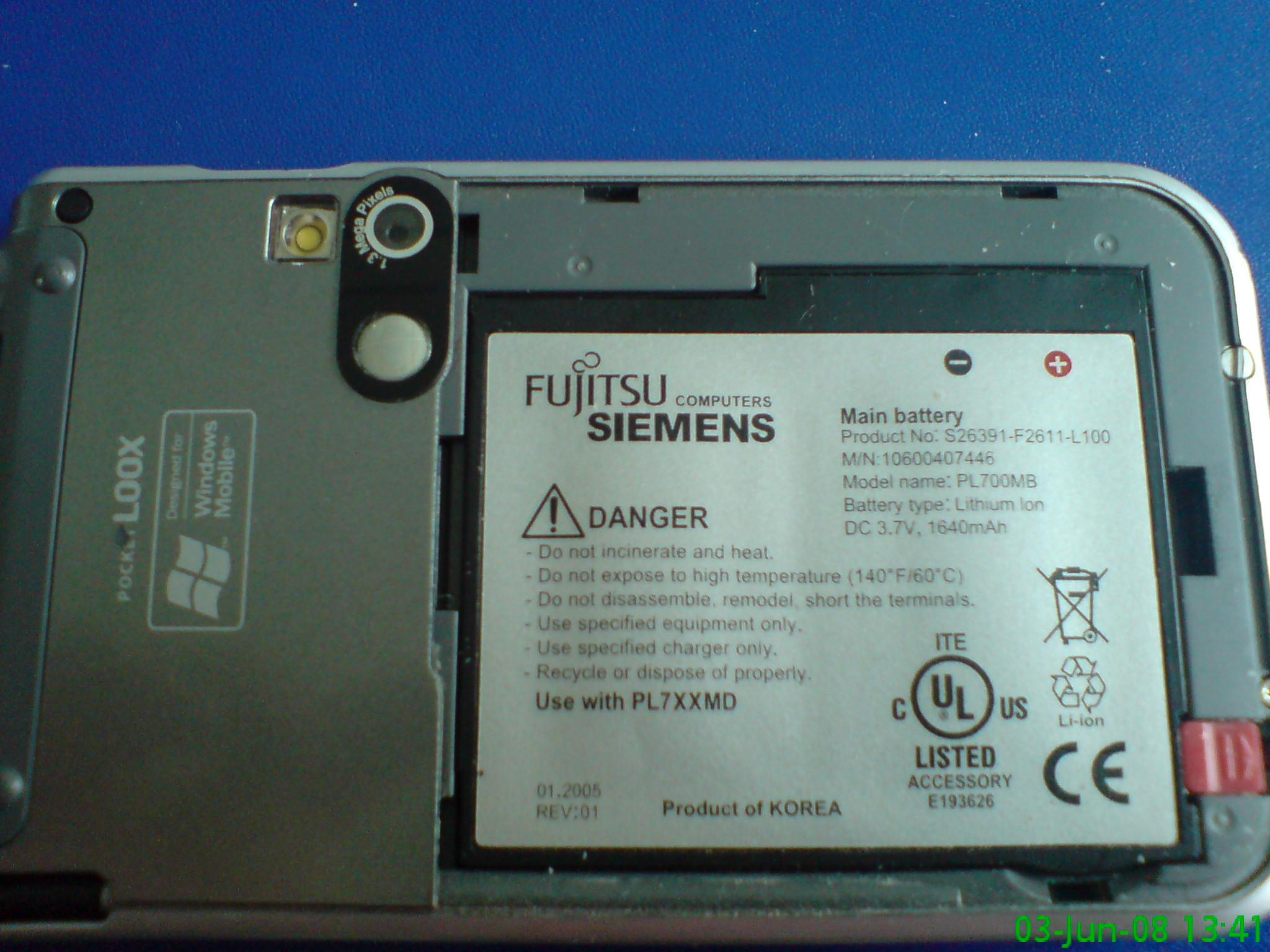 fsc loox 720, cover removed